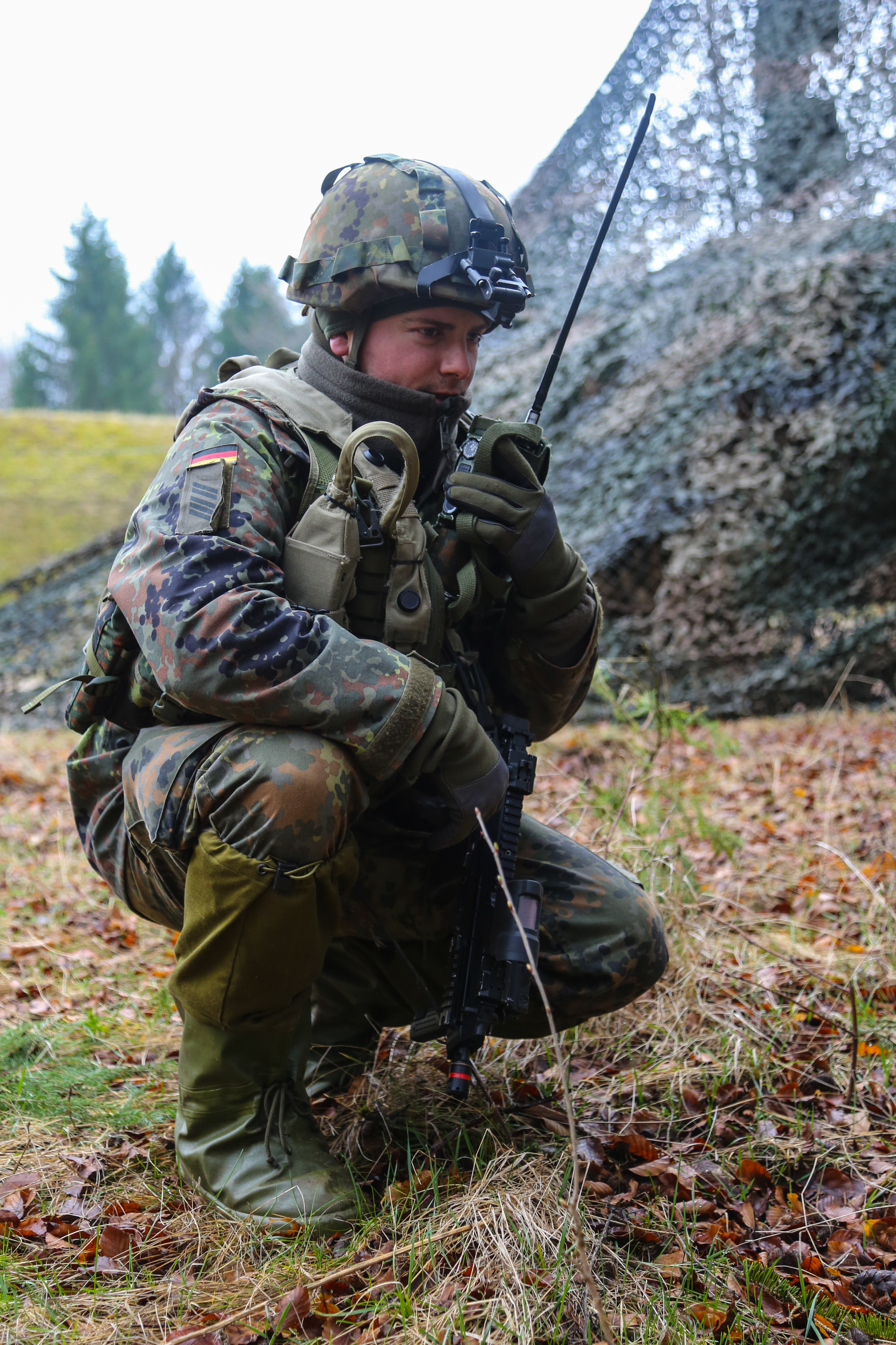 German army Pvt. Christian Klemmer of 2nd troop, 8th Reconnaissance Battalion, 12th Armored Brigade receives mission updates while conducting reconnaissance operations during Exercise Allied Spirit VI at 7th Army Training Command’s Hohenfels Training Area, Germany, March 24, 2017. Exercise Allied Spirit VI includes about 2,770 participants from 12 NATO and Partner for Peace nations, and exercises tactical interoperability and tests secure communications within Alliance members and partner nations..